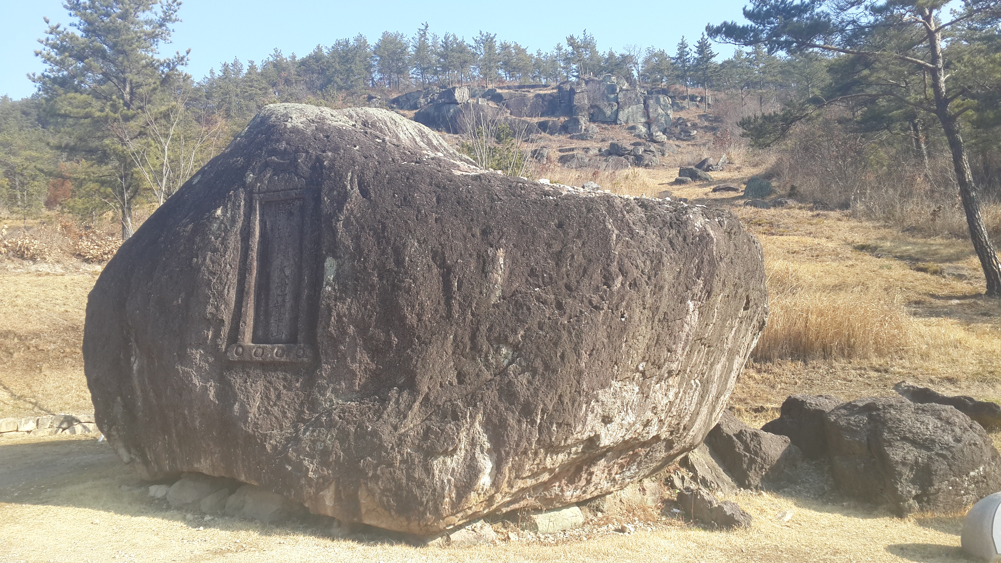 Dolmen sites in Hwasun, Jeollanam-do, South Korea which is one of the three places of UNESCO cultural heritages.